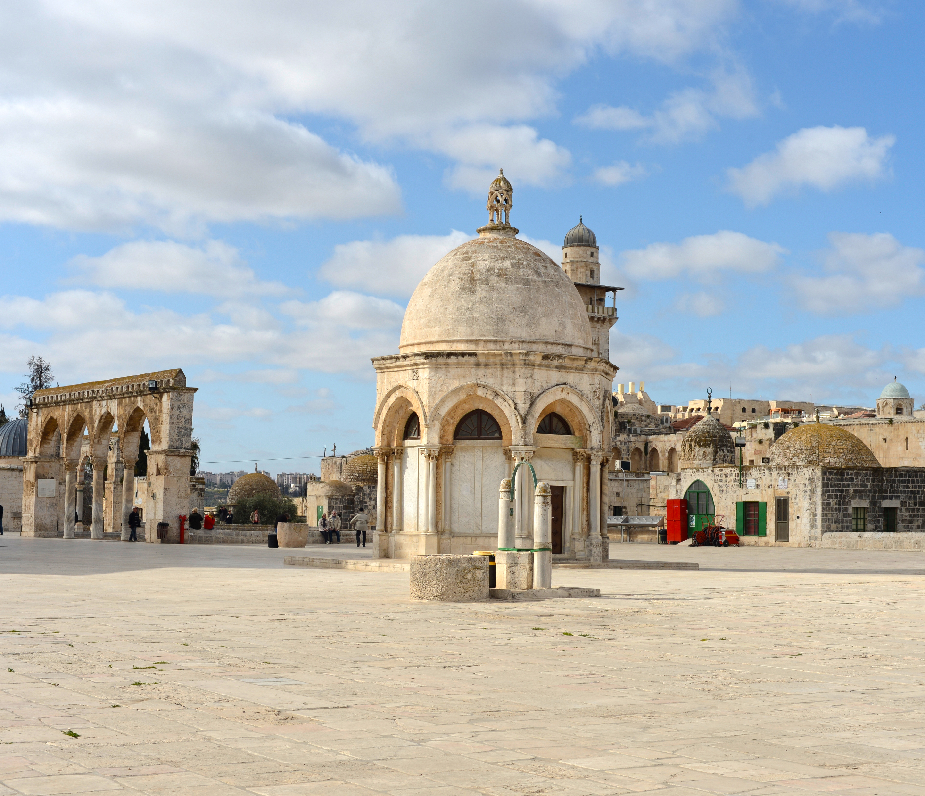 The Dome of the Ascension (Arabic: قبة المعراج) was constructed to commemorate the prophet Muhammad's ascension to heaven.